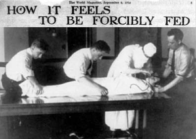 Djuna Barnes: How it Feels to Be Forcibly Fed